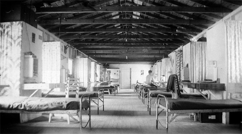 Interior of Civilian Public Service dormitory at Camp Snowline (CPS #31), near Camino California, 1945. From the private collection of Leo Harder, licensed under Creative Commons Attribution Share-Alike 2.5.